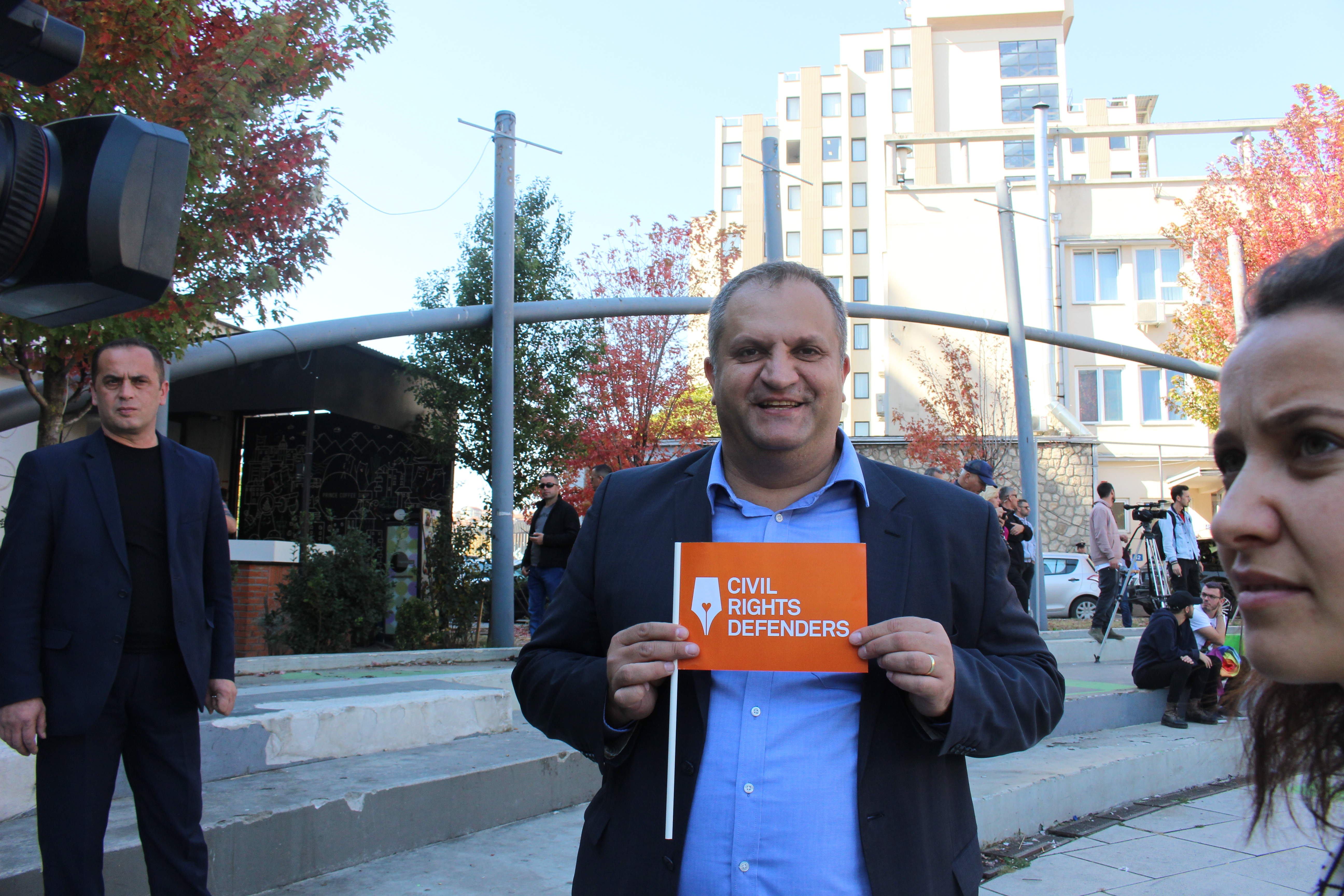 Shpend Ahmeti, the Mayor of Prishtina during Kosovo Pride 2018.